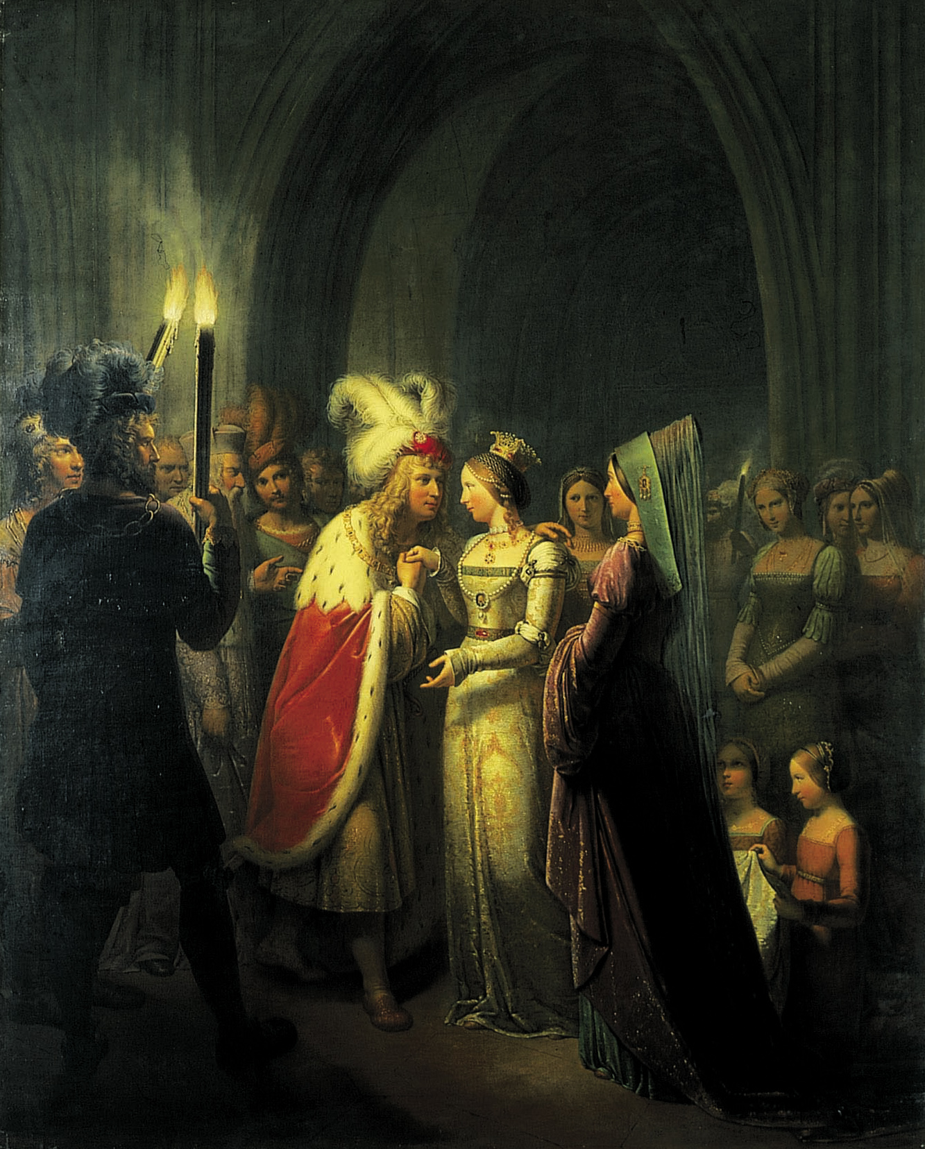 Marriage of Maximilian I and Maria of Burgundy.